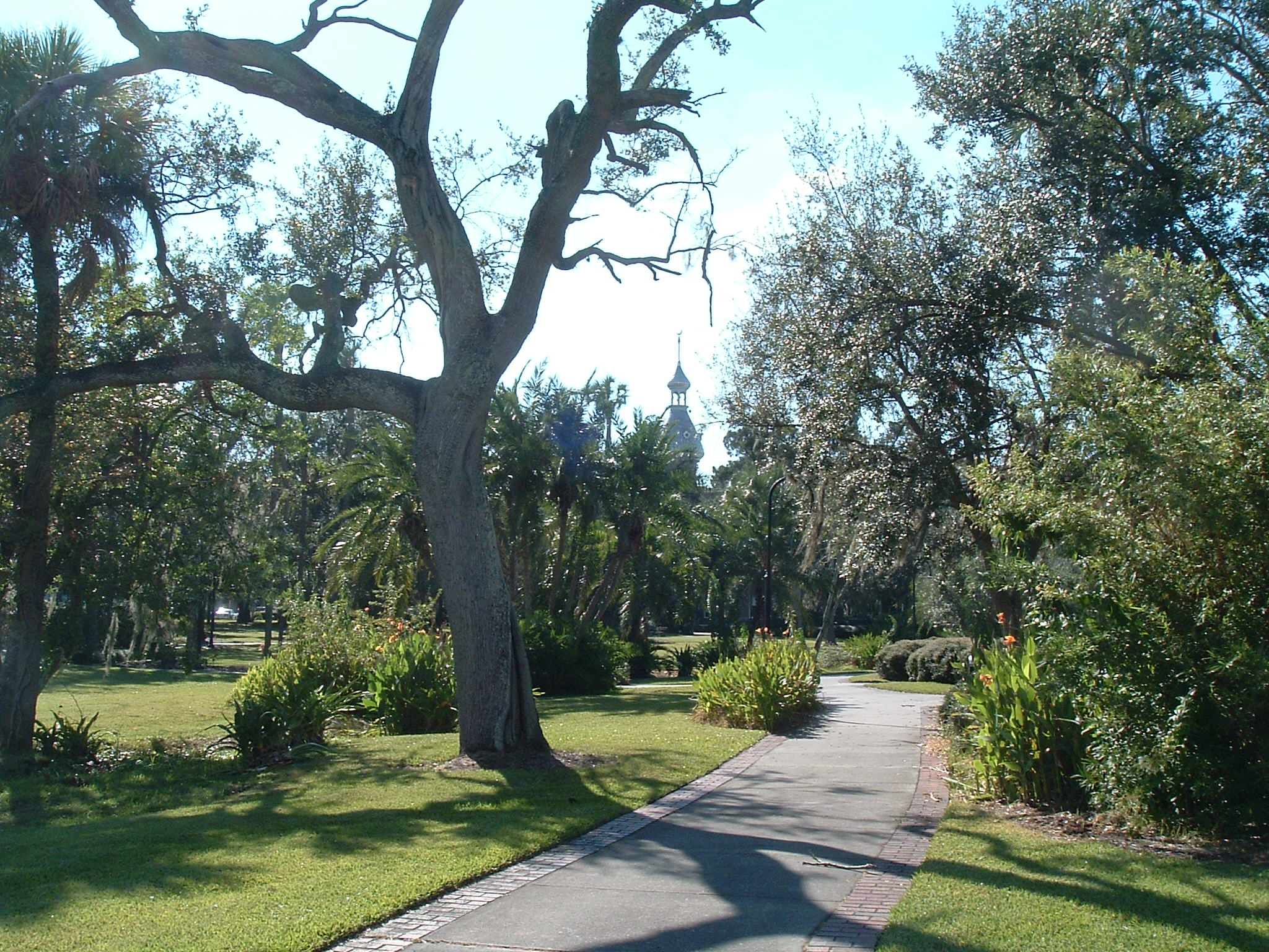 One of Plant park's many wooded paths, at the Henry B. Plant Museum, south wing of Plant Hall (formerly the Tampa Bay Hotel)